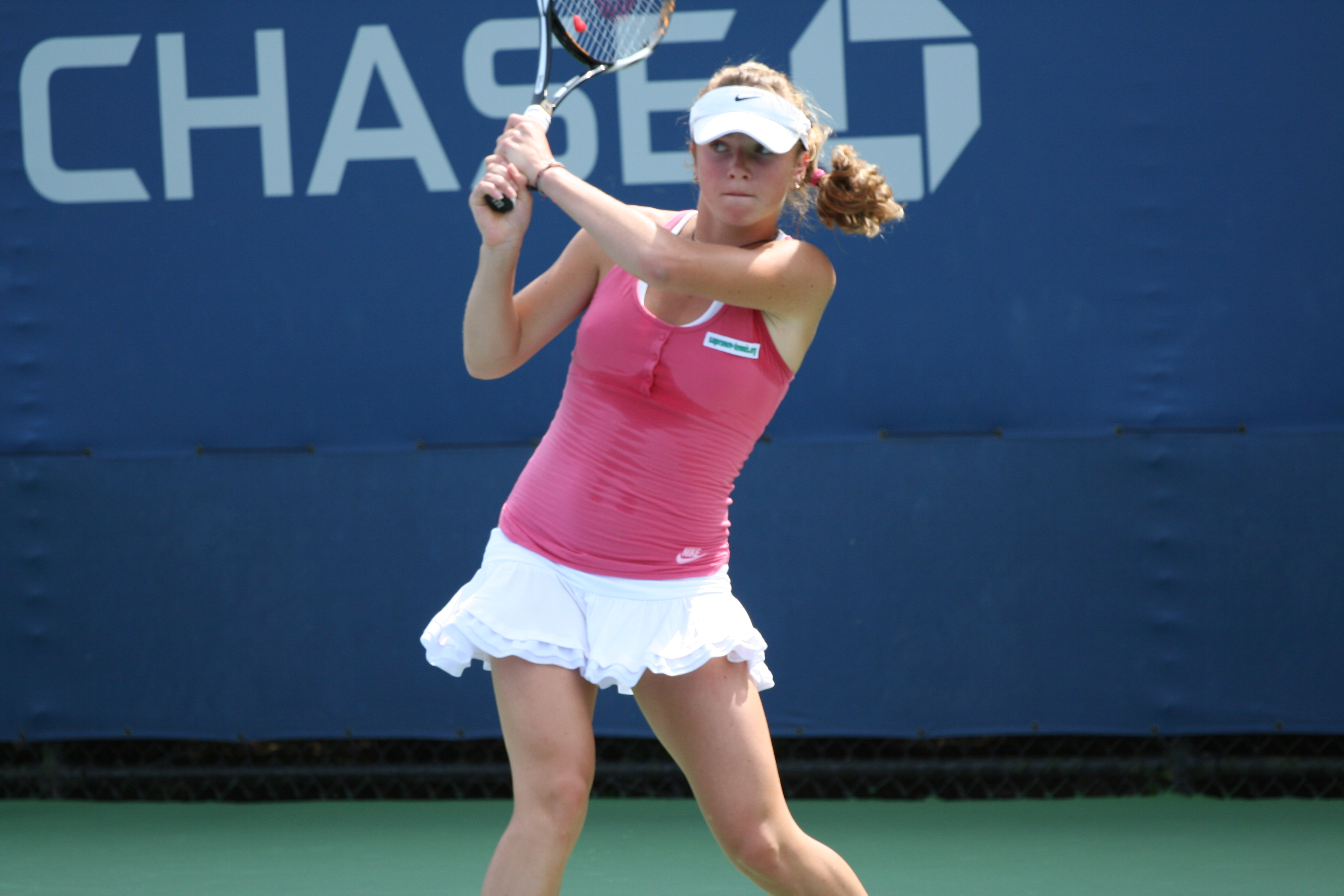 U.S. Open Juniors Monday, Sept. 7, 2009